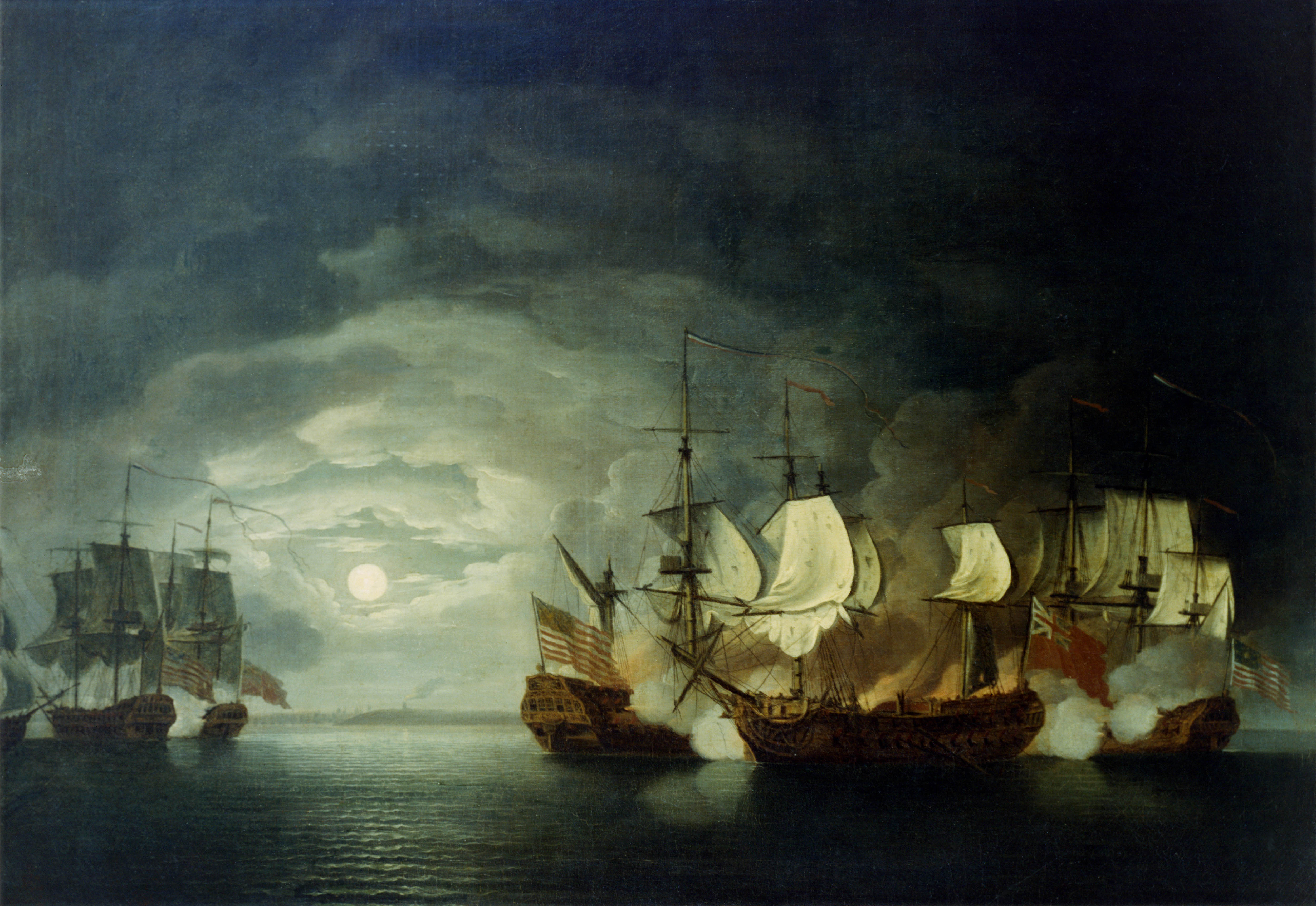 Oil on canvas, 21" x 28", by Thomas Mitchell (1735-1790), signed and dated by the artist, 1780. It depicts Bonhomme Richard (center), commanded by Continental Navy Captain John Paul Jones, closely engaged with HMS Serapis, commanded by Royal Navy Captain Richard Pearson, off Flamborough Head, England. Firing at right is the Continental frigate Alliance, while at left the British Countess of Scarborough is engaging the American Pallas.